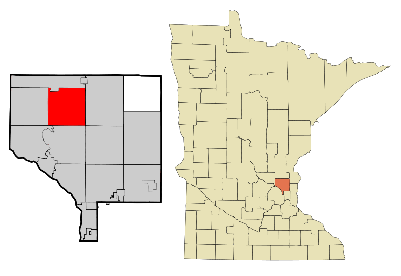 This map shows the incorporated and unincorporated areas in Anoka County, highlighting Oak Grove in red. This file has been updated to reflect the recent incorporation of new municipalities.